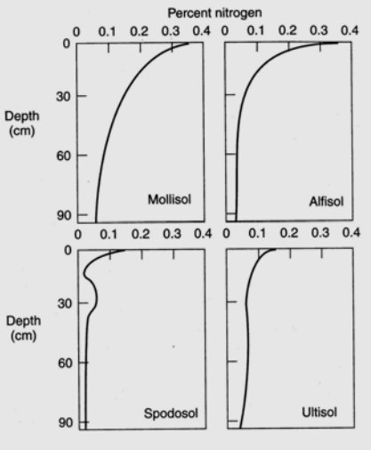 source = own work